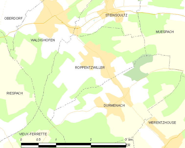 Map of French municipality